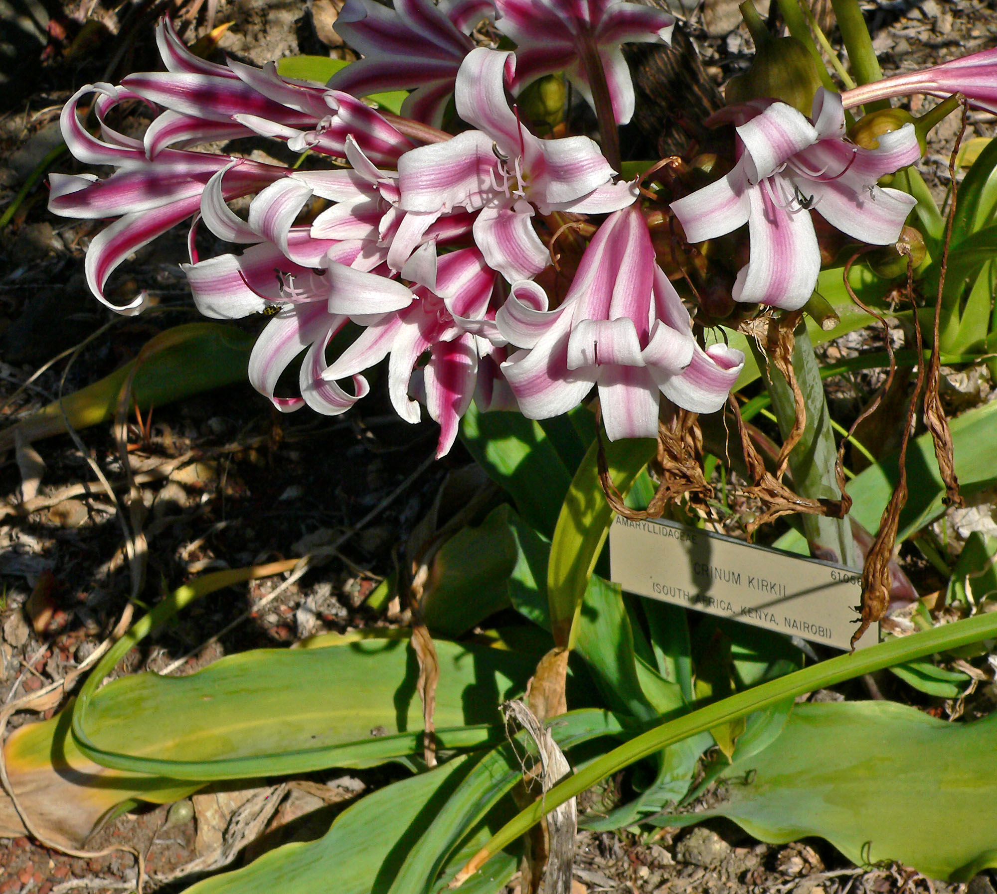 Crinum kirkii at the University of California Botanical Garden, Berkeley, California